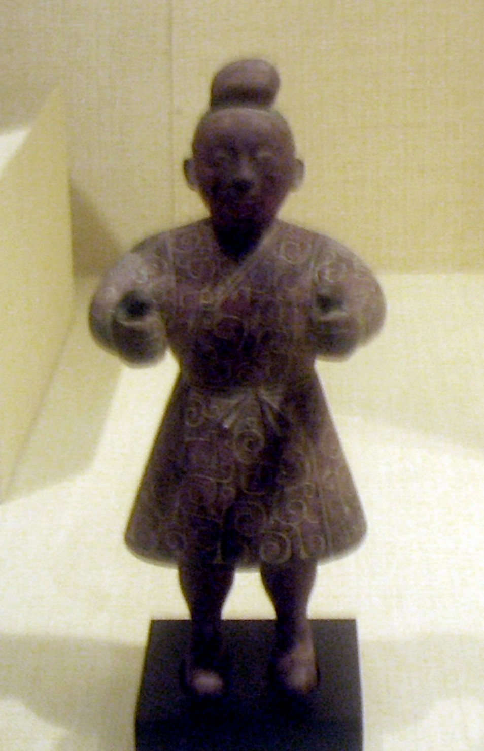 A bronze figure of a charioteer from the Warring States era of the Zhou Dynasty, dated 4th to 3rd century BC.